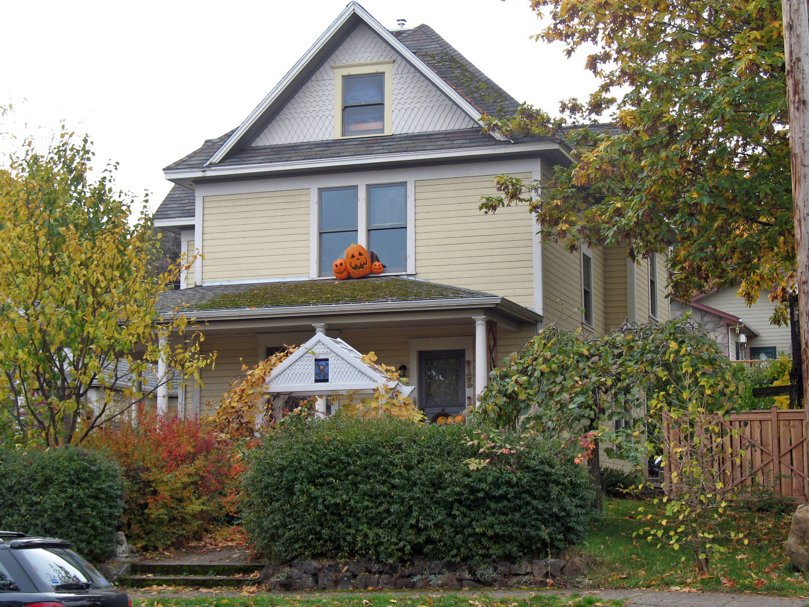 National Register of Historic Places listings in Hood River County, Oregon. Ernest S. and Clara Colby House, 1219 Columbia St, Hood River, OR. Photographed October 28, 2009 from the northeast corner of 13th and Columbia St.